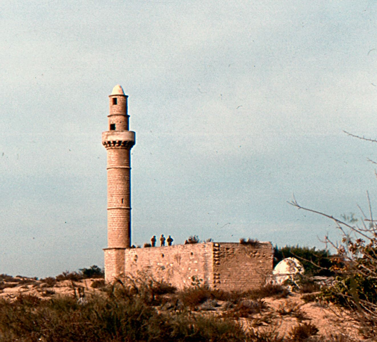 Nabi Rubin, view to the north, 1985.